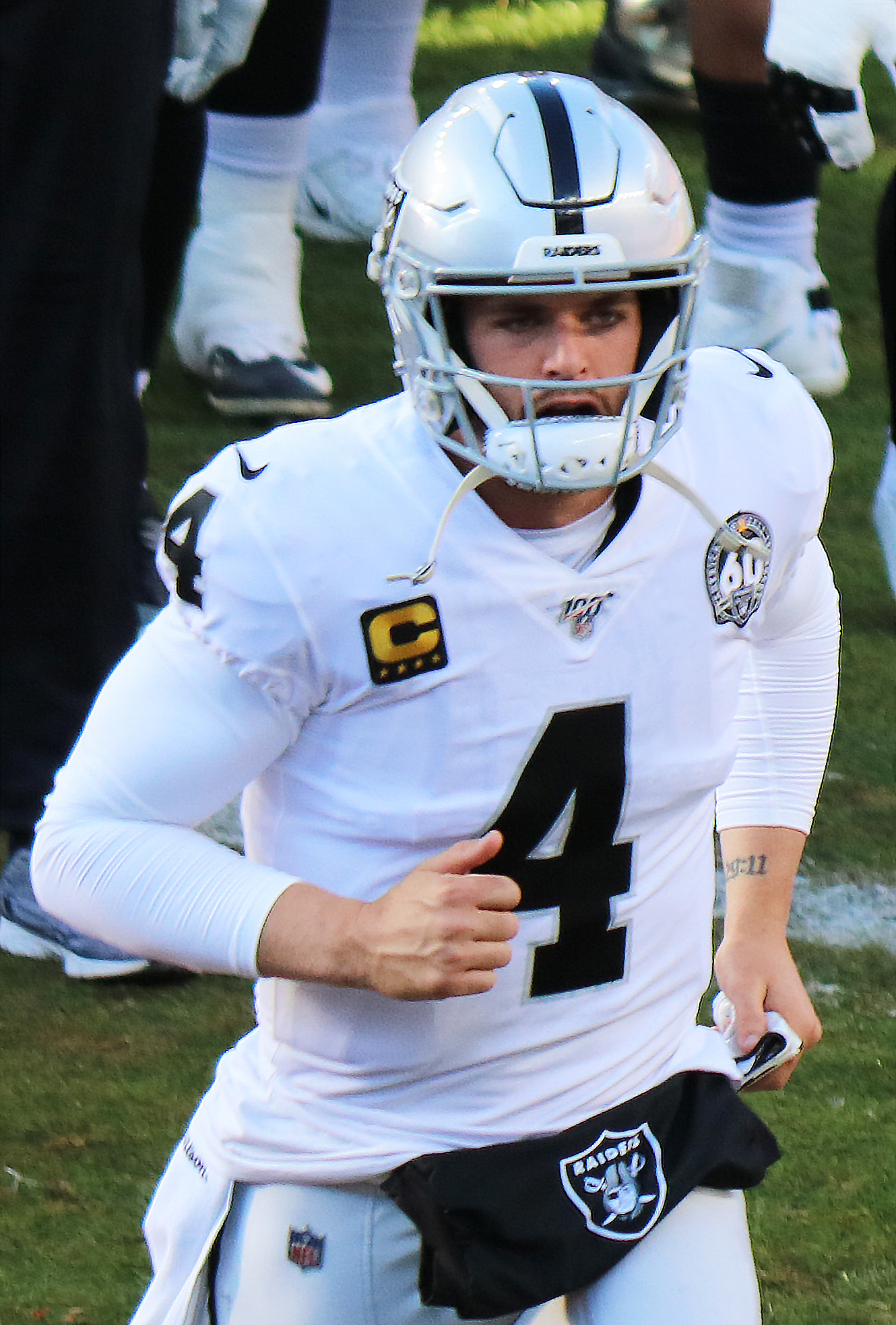 Derek Carr, a National Football League player.